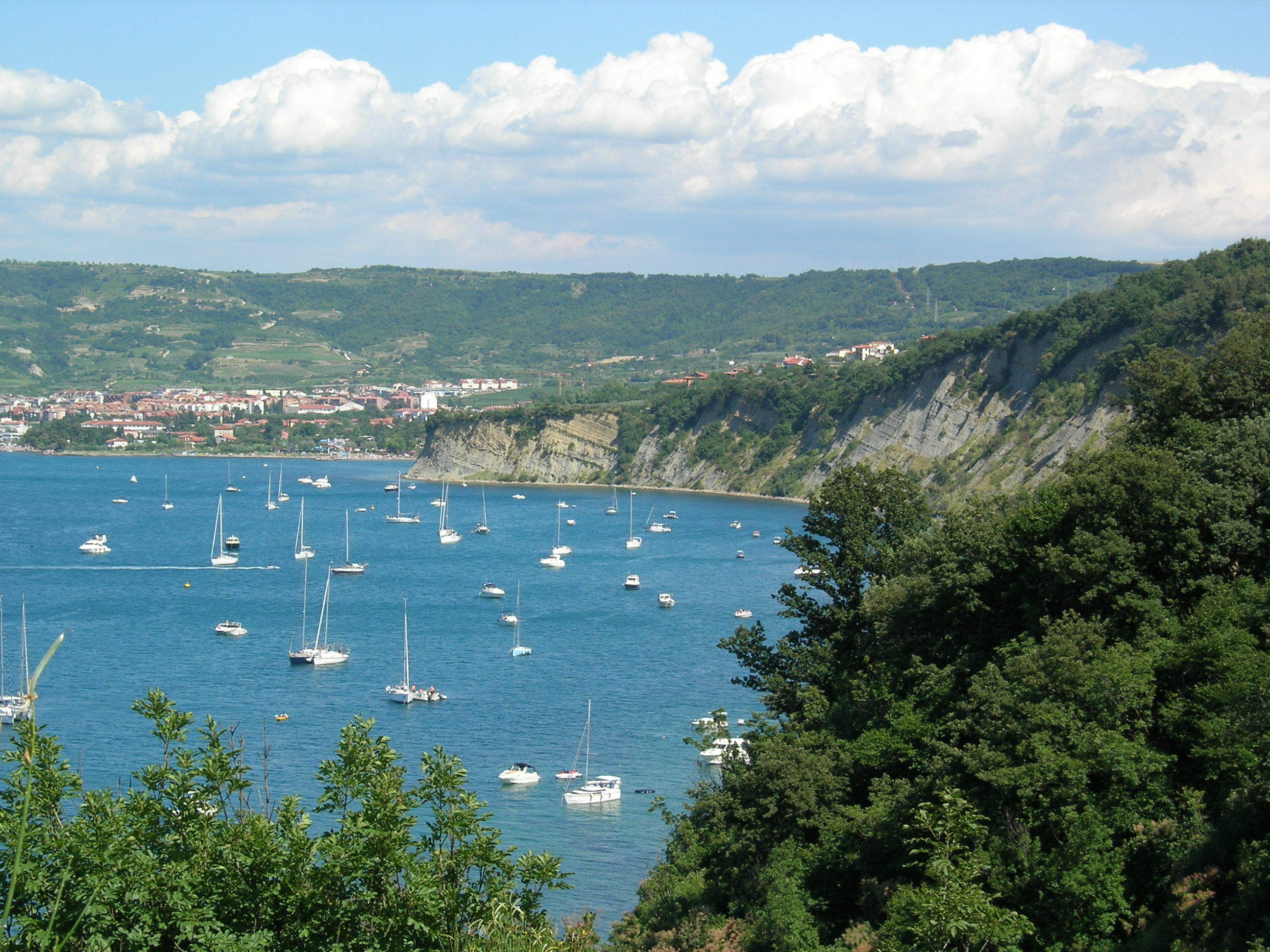 View of the Strunjan Nature Reserve, west of Izola, Slovenia